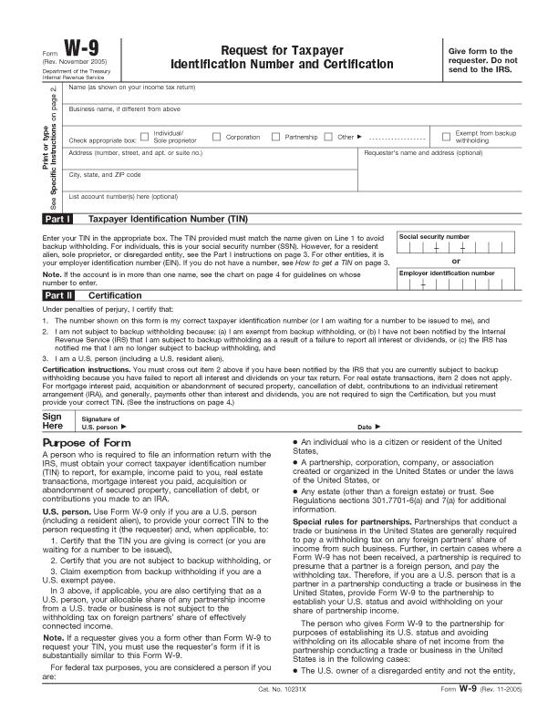 IRS Form W-9